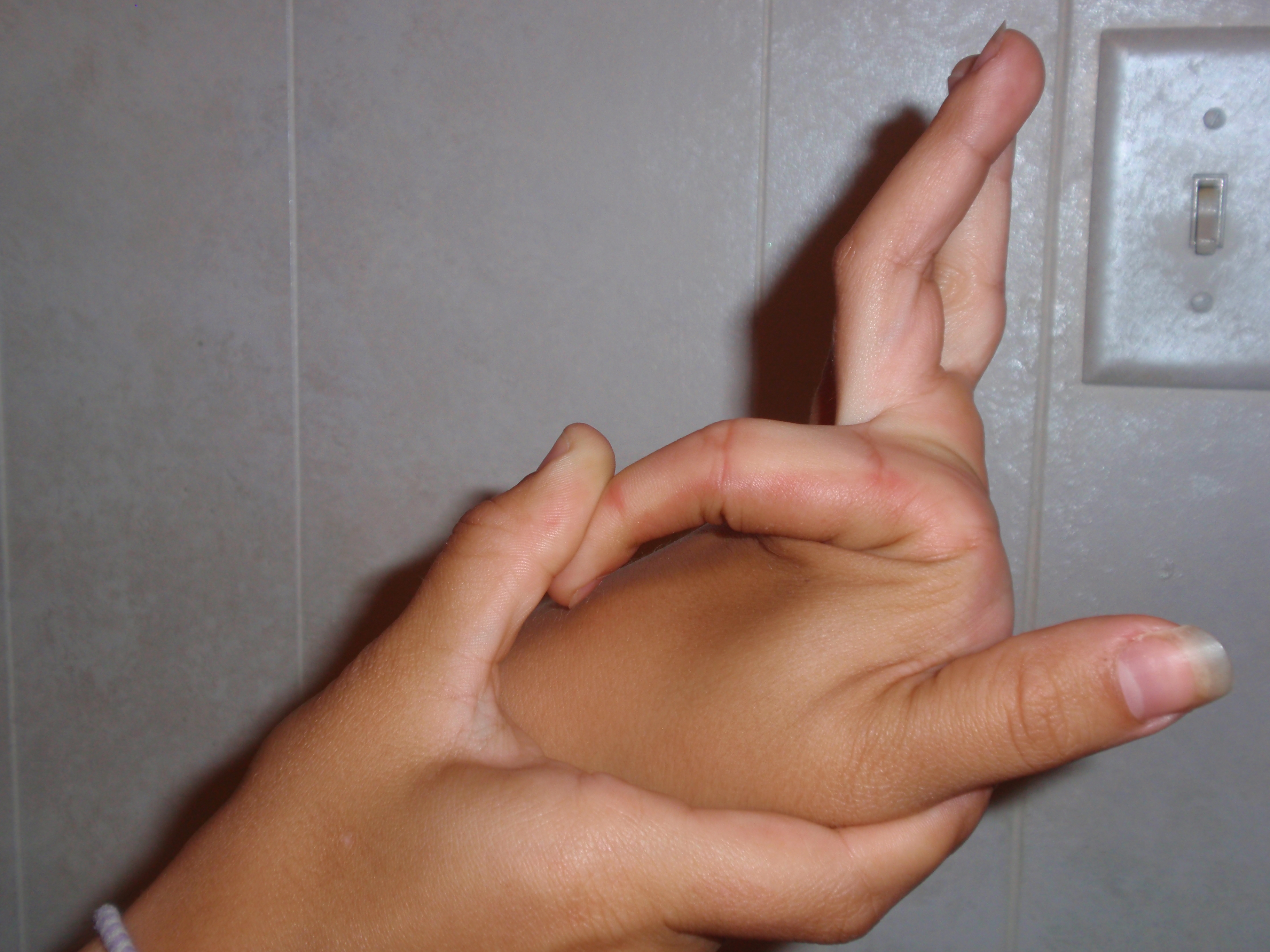 Double Jointed Finger